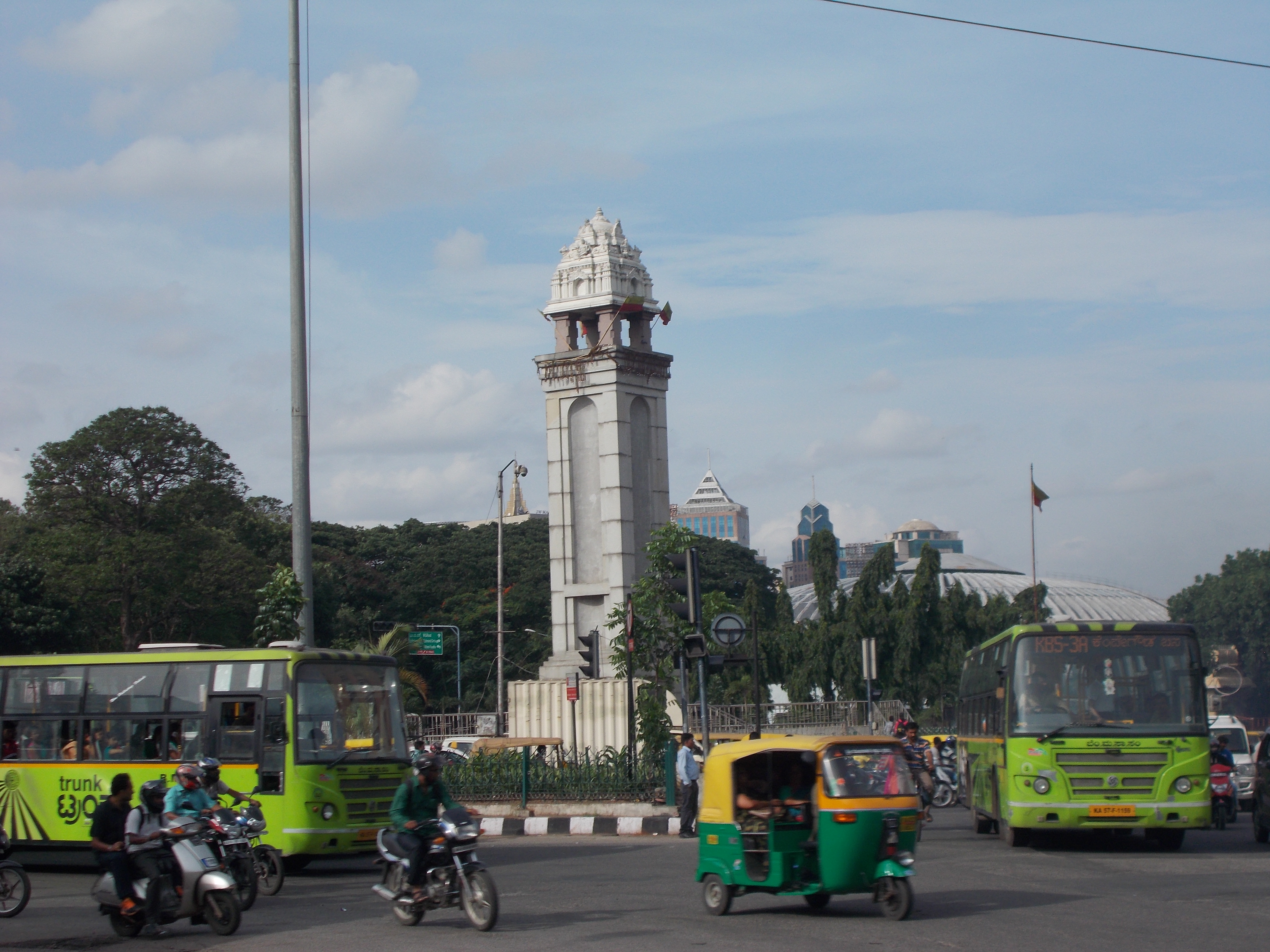 The Brihat Bengaluru Manahanagara Palige (Greater Bangalore Metropolitan Corporation) Tower near Corporation Circle, Bangalore